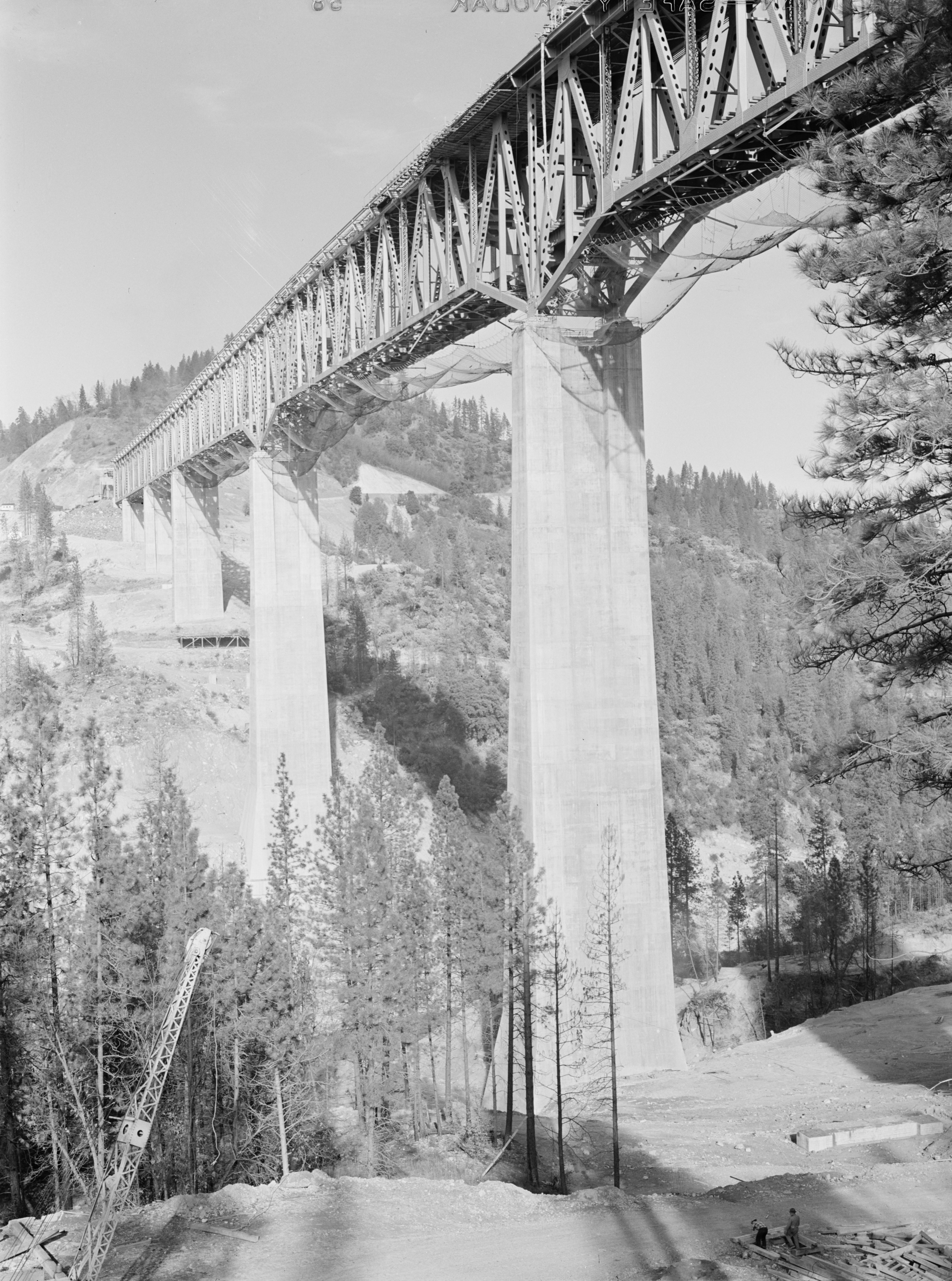 Pit River bridge under construction, California